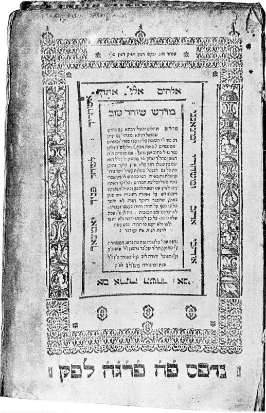 Title page of Midrash Tehillim (Prague, 1613), from the 1906 Jewish Encyclopedia.